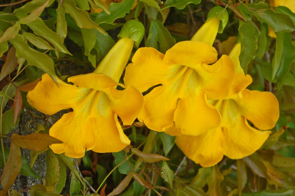 Dolychandra unguis-cati at the botanical garden of Villa Durazzo-Pallavicini, Genova Pegli